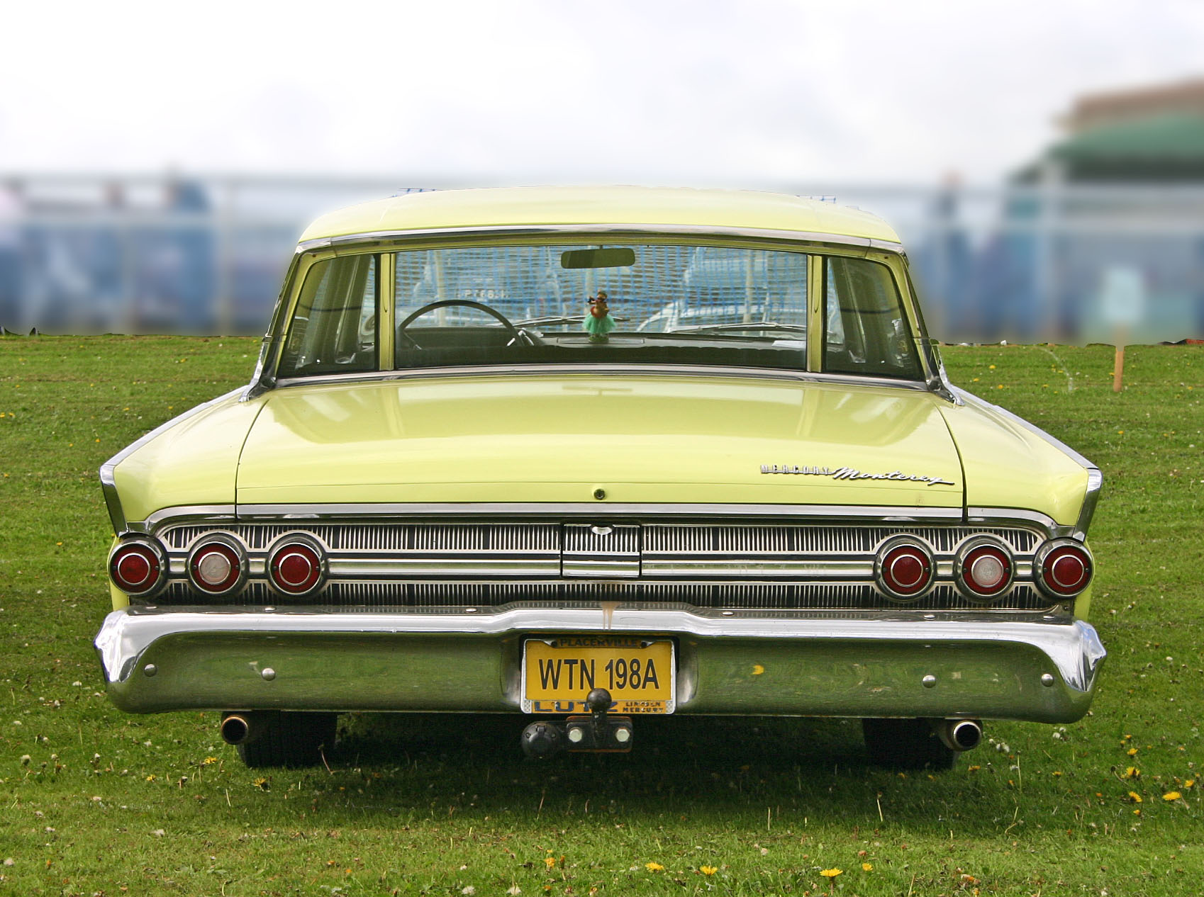 Mercury Monterey 4door Hardtop 1963. The "Breezeway" rear window on the Hardtop models also had a wind down window shown here.